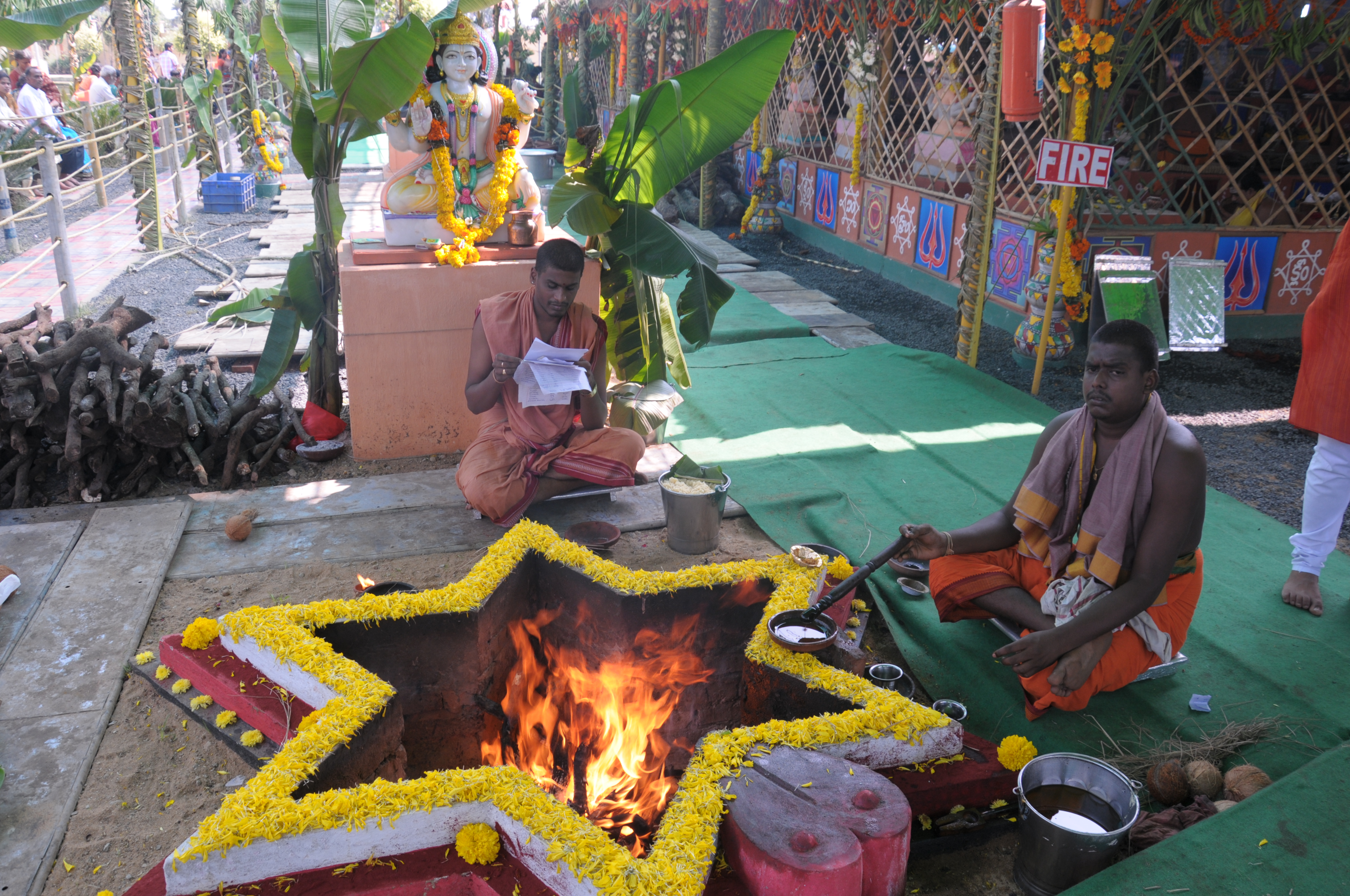 nakshatra yagam at ahoratram